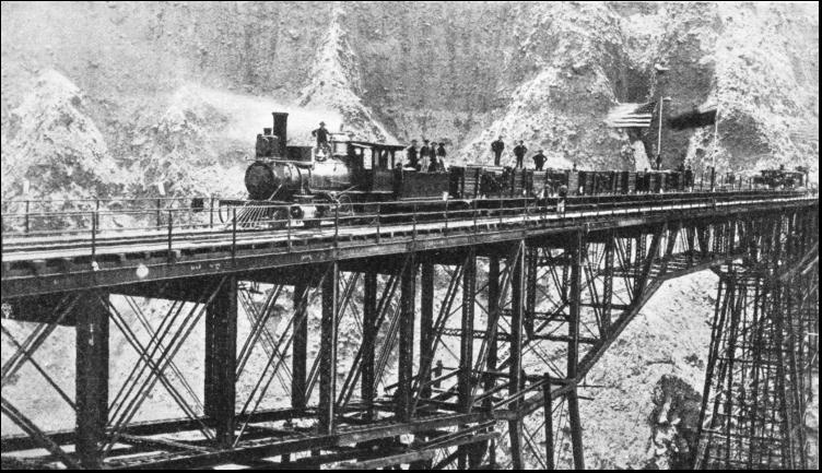 In "Verrugas Viaduct and its Reconstruction, Peru, South America" Kirti Gandhi, Ph.D., P.E. President, Gandhi Engineering, Inc., New York City, U.S.A. says: "The Verrugas Viaduct was 51.8 miles from Lima and 5,850’ above sea level in the Andes mountains. The wrought iron viaduct was designed, fabricated and shipped by the Baltimore Bridge Company via land and sea to Callao from where it was transported to the site on rail and mules. The viaduct consisted of four Fink truss spans, three of 100’ in length and one 125’ long. The three piers were 146’, 252’, and 179’ in height; and were all 50’ wide. The total length of the viaduct was 575’. The fabricator had planned to frame the spans in the bed of the gorge and lift them bodily into place. However, Leffert L. Buck, the Resident Engineer, devised an ingenious erection scheme, and the viaduct was opened to traffic on January 8, 1873."